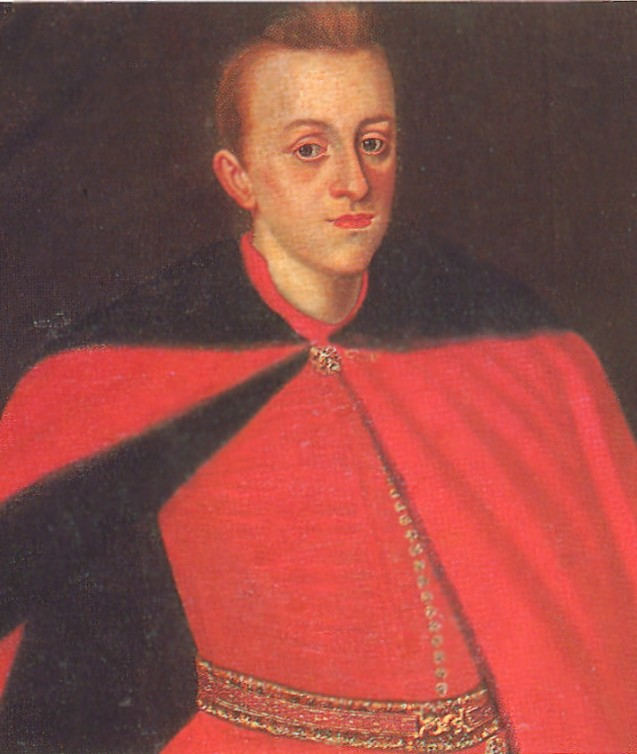 Władysław IV King of Poland in his teens